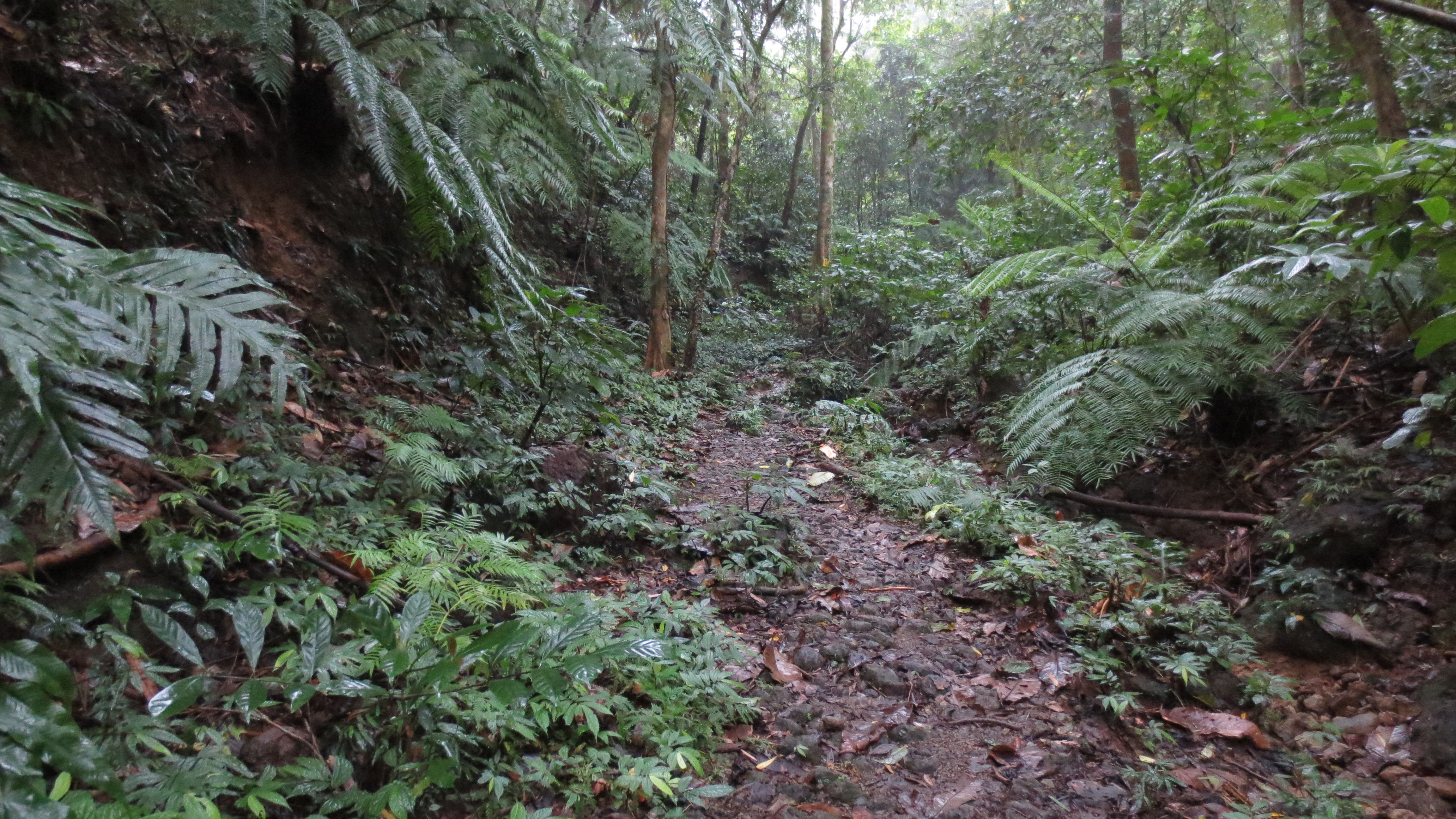 Trail Ferns, Mount Makiling